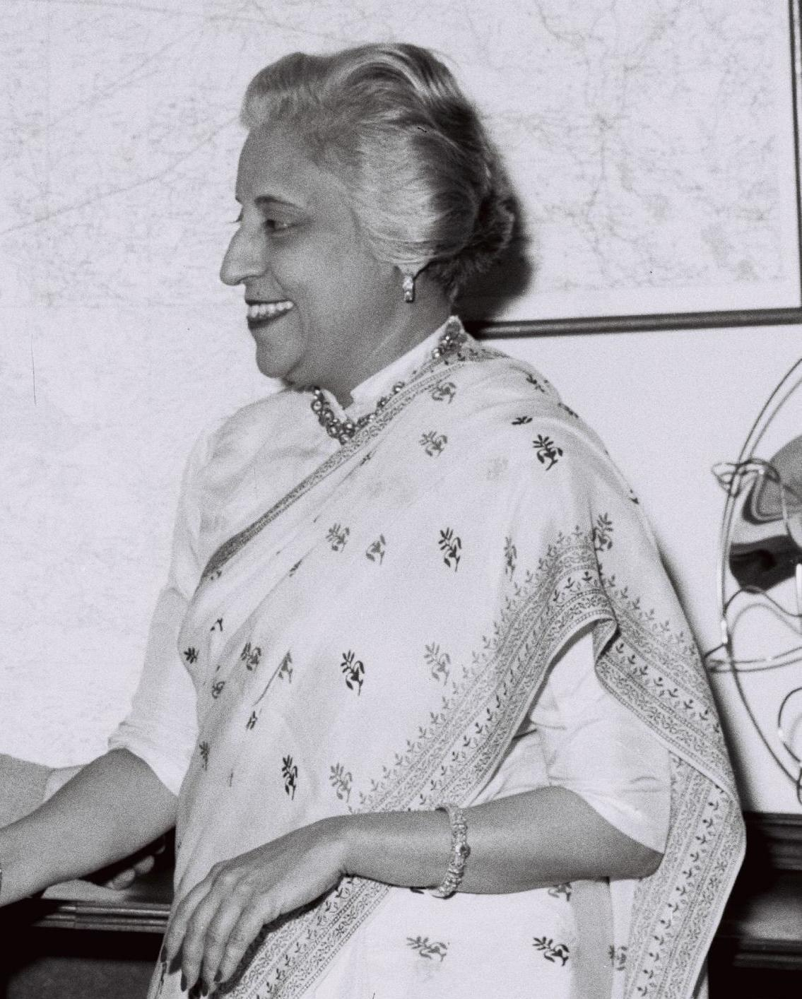 Prime Minister of Israel David Ben-Gurion meeting Krishna Hutheesing